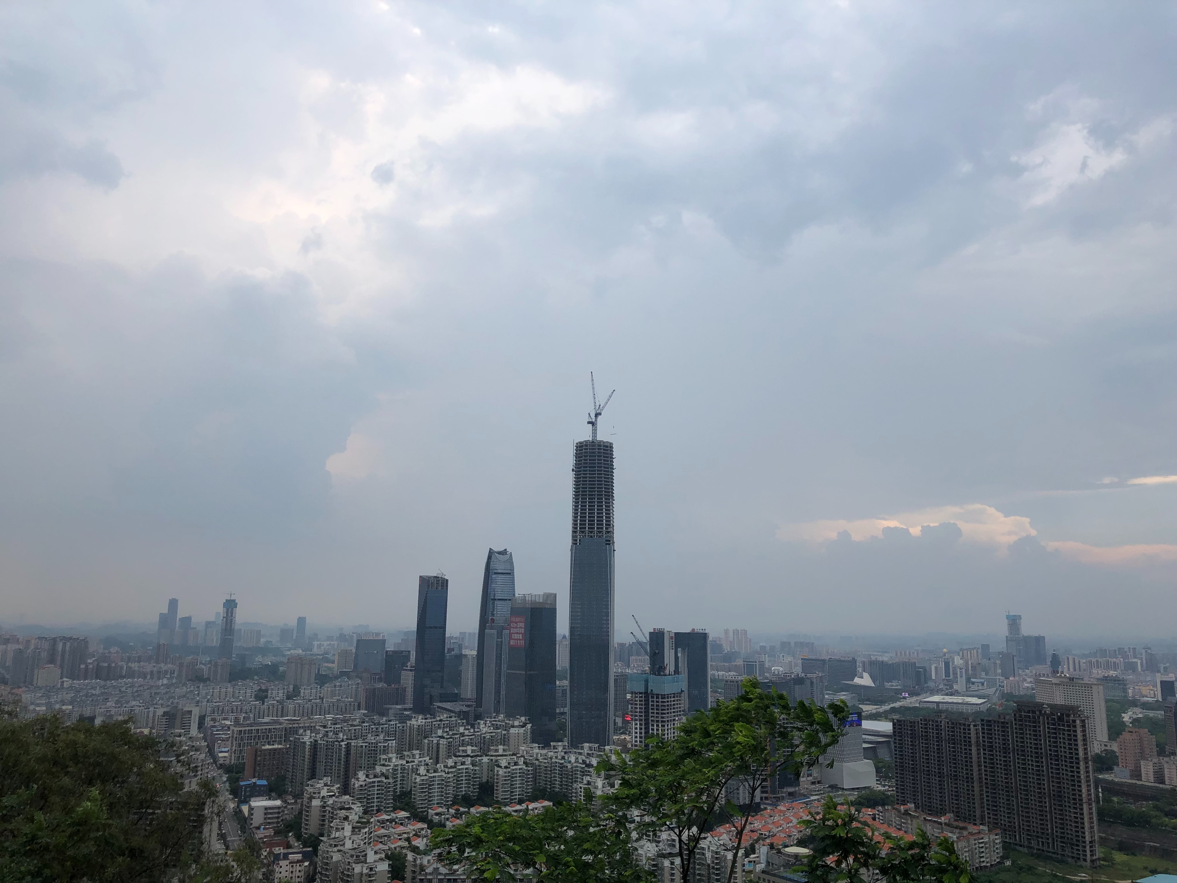 东莞市, 中国, July 2019